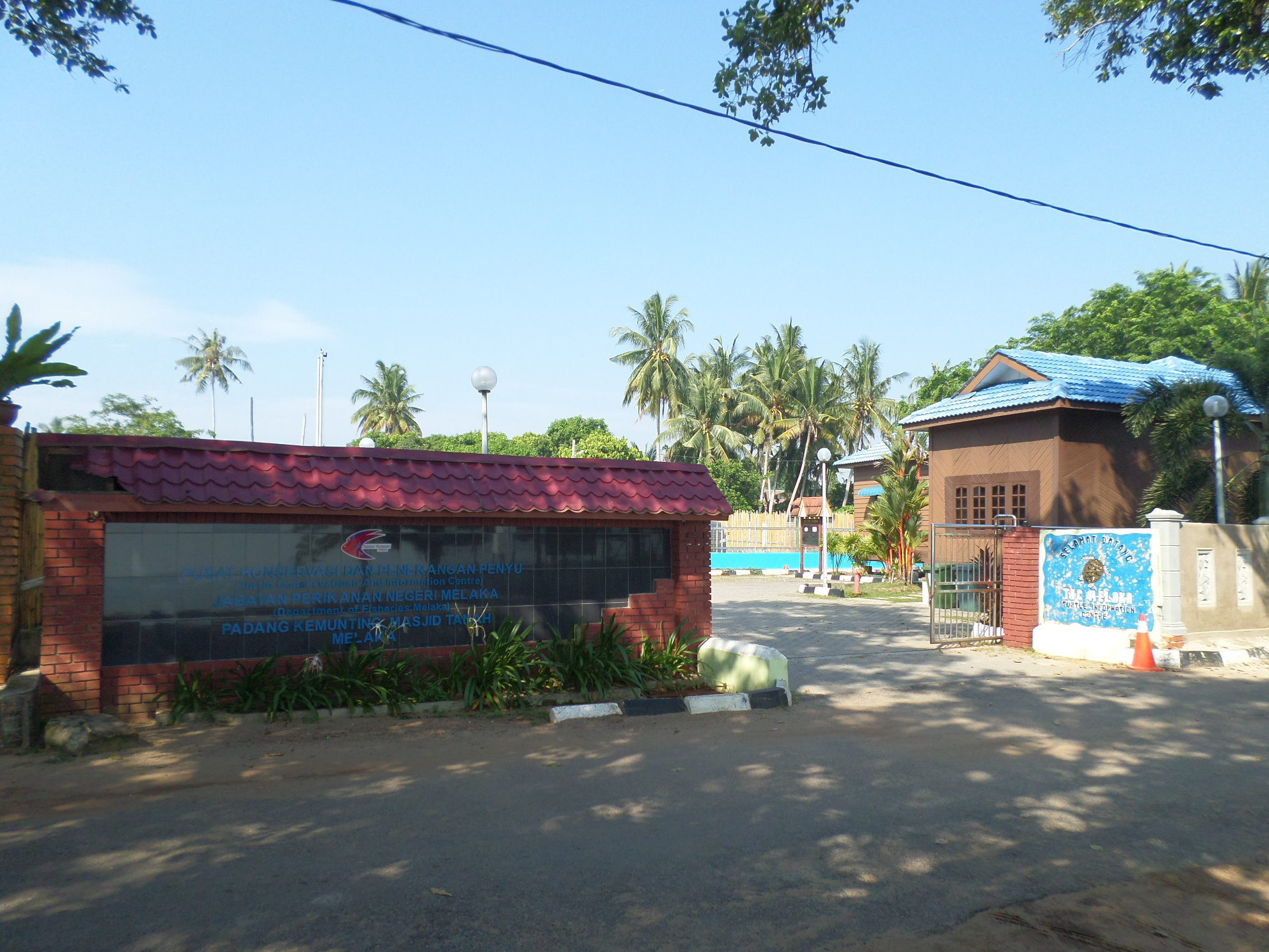 Turtle Conservation and Information Center, Masjid Tanah, Alor Gajah, Melaka, MalaysiaBahasa Melayu: Pusat Konservasi dan Penerangan Penyu, Masjid Tanah, Alor Gajah, Melaka, Malaysia